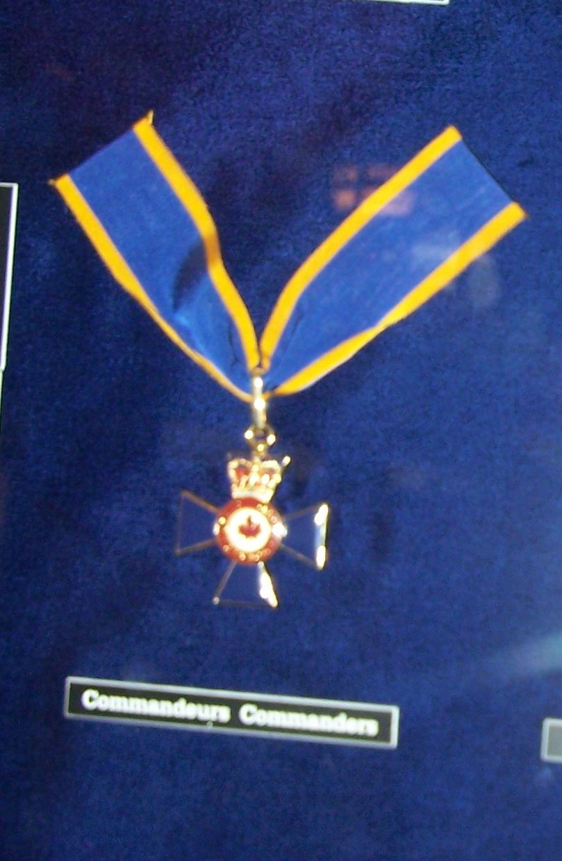 Insignia of a Commander of the Order of Military Merit displayed in a museum at La Citadelle in Quebec City, Quebec, Canada. Released under copyleft